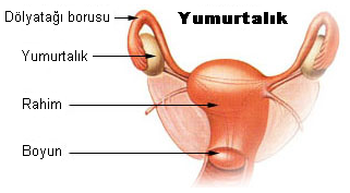 Summary == == Licensing